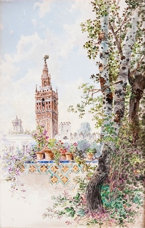 Vista desde el Parque de la Cartuja